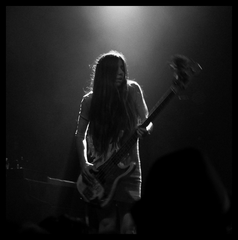 Entrance Band. Terminal 5 NYC 04/29/11